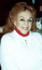 Moolah at Houston Airport. April 2nd, 2001.